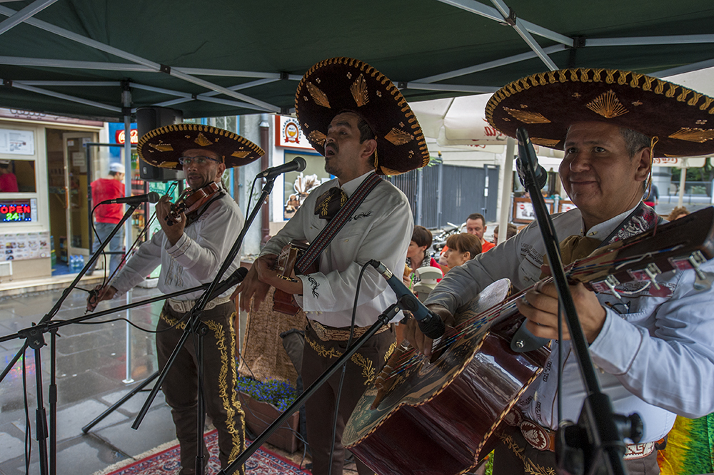 Mexican expatriates in Poland play own traditional music in the street of Saska Kepa district of Warsaw, July 2016. The trio calls themselves Mariachi Los Amigos